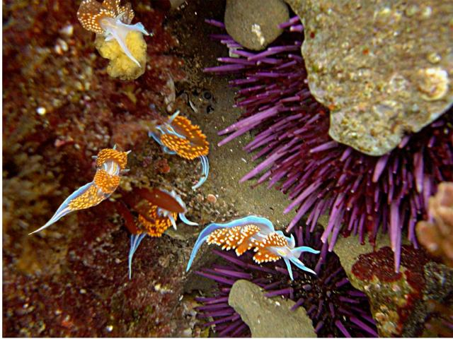 Five individuals of the nudibranch species (Hermissenda crassicornis) and two purple sea urchins in a California tide pool